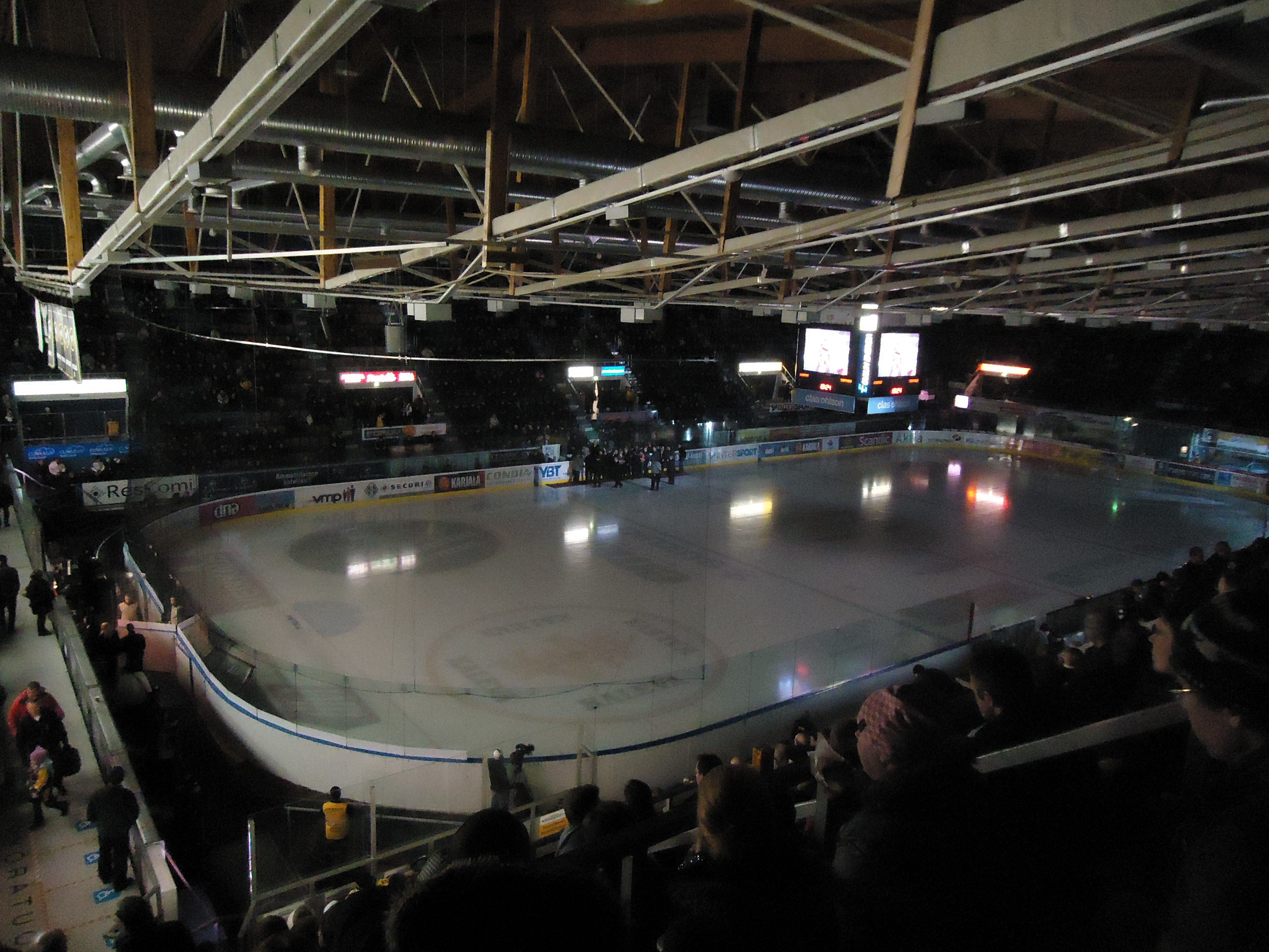 The Oulun Energia Areena in Oulu, Finland